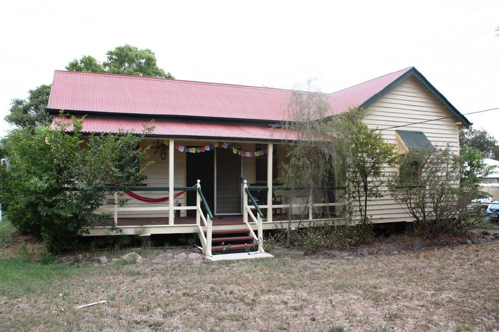 Forest Hill State School, Residence from NE (2014)